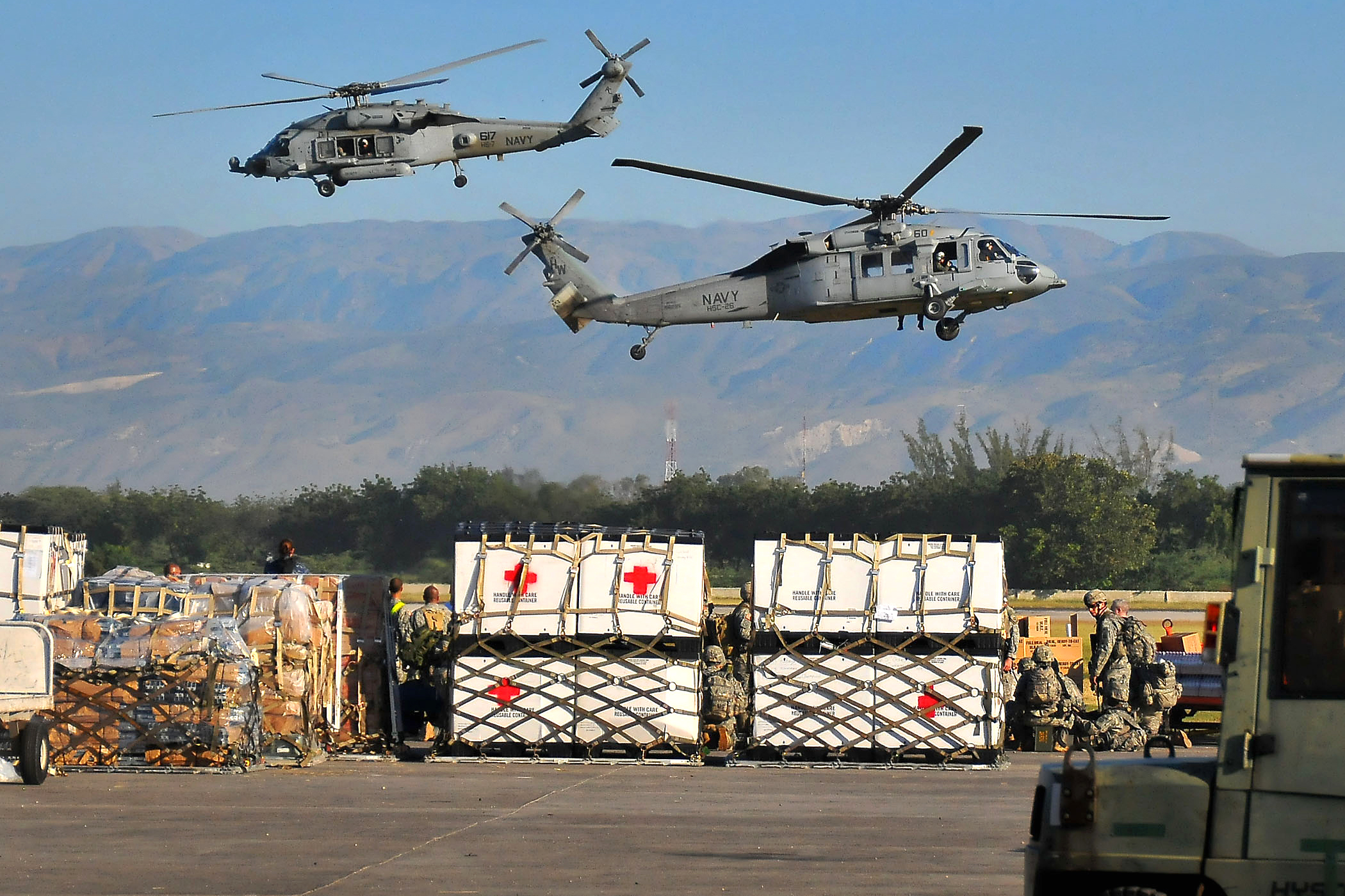 U.S. Navy SH-60F Oceanhawk helicopters from the aircraft carrier USS Carl Vinson transport water and supplies from the airport to areas around Port-au-Prince, Haiti, Jan. 18, 2010. VIRIN: 100118-N-4774B-006a